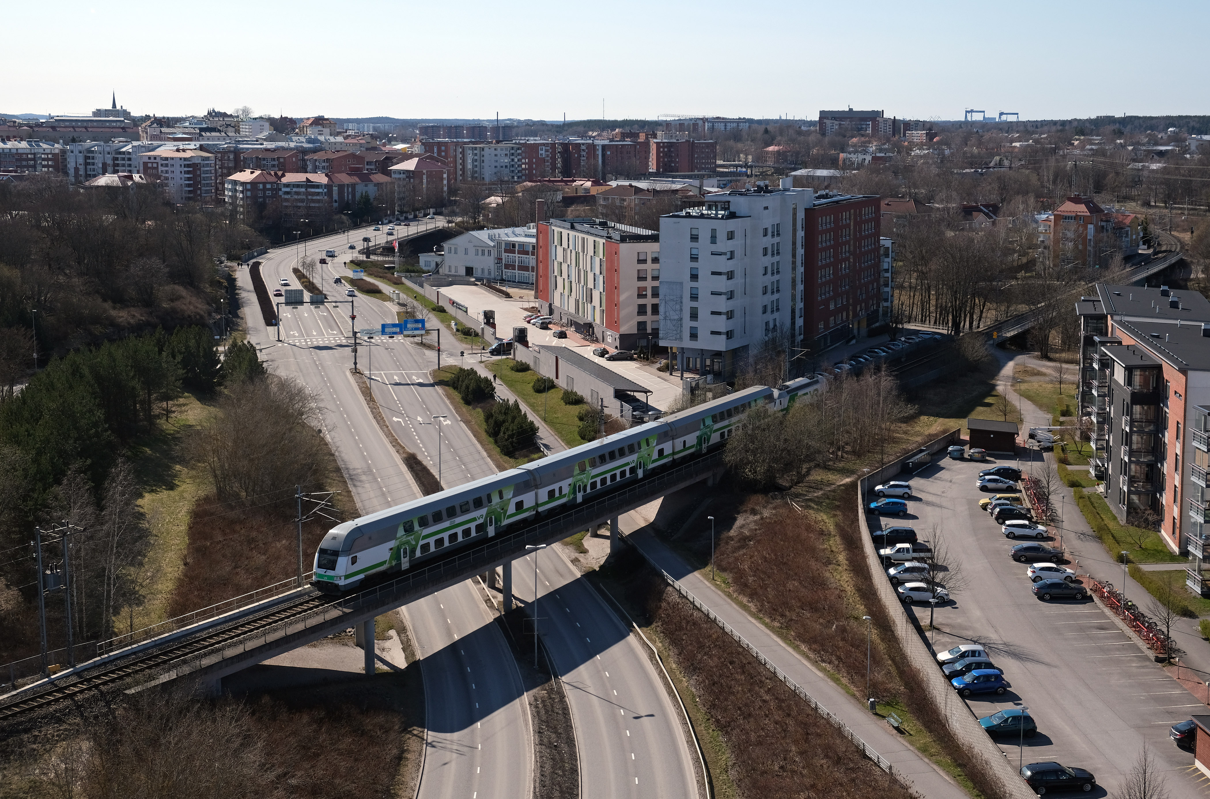 View from Ikituuri, Turku.